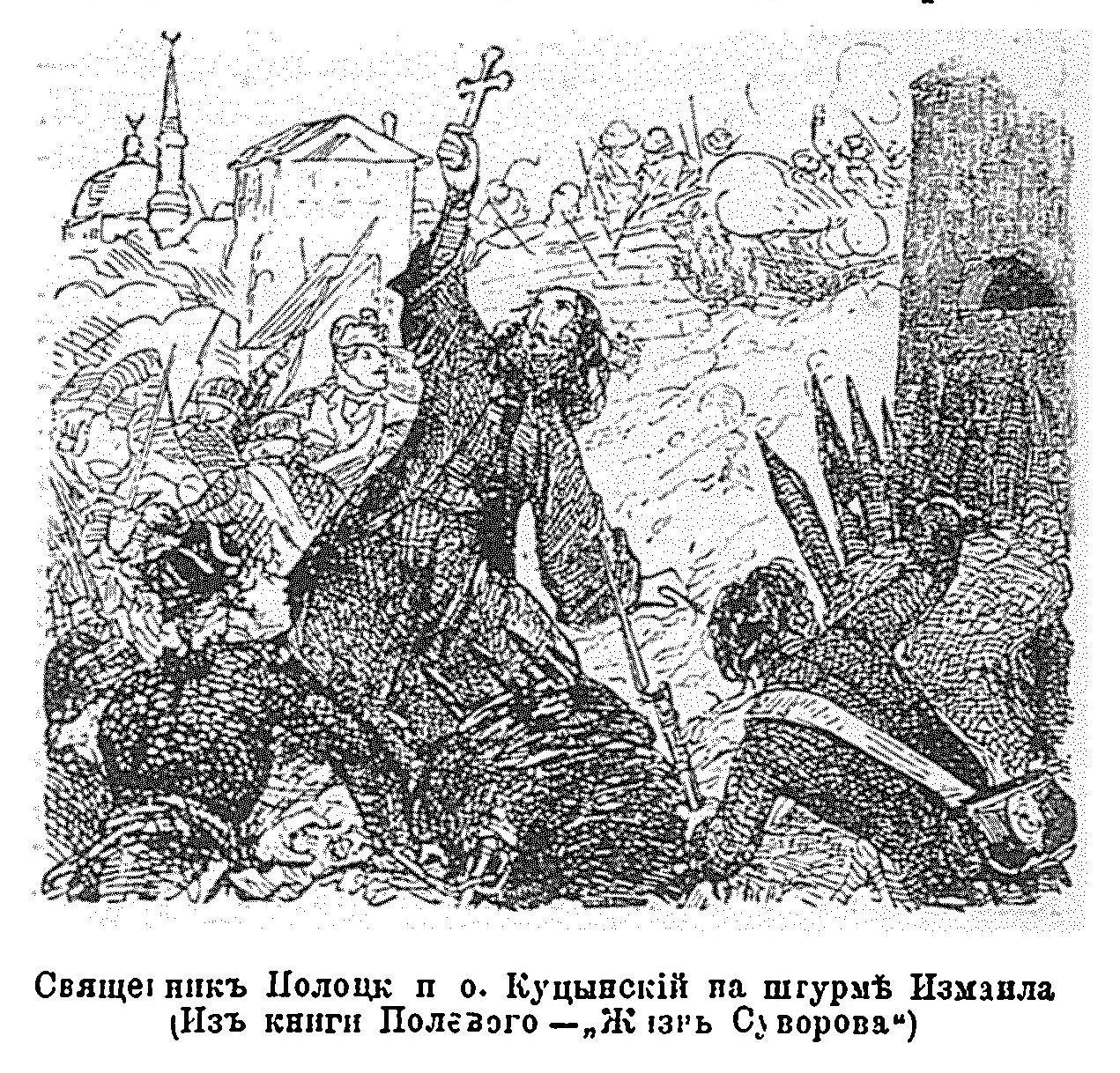 Siege of Izmail